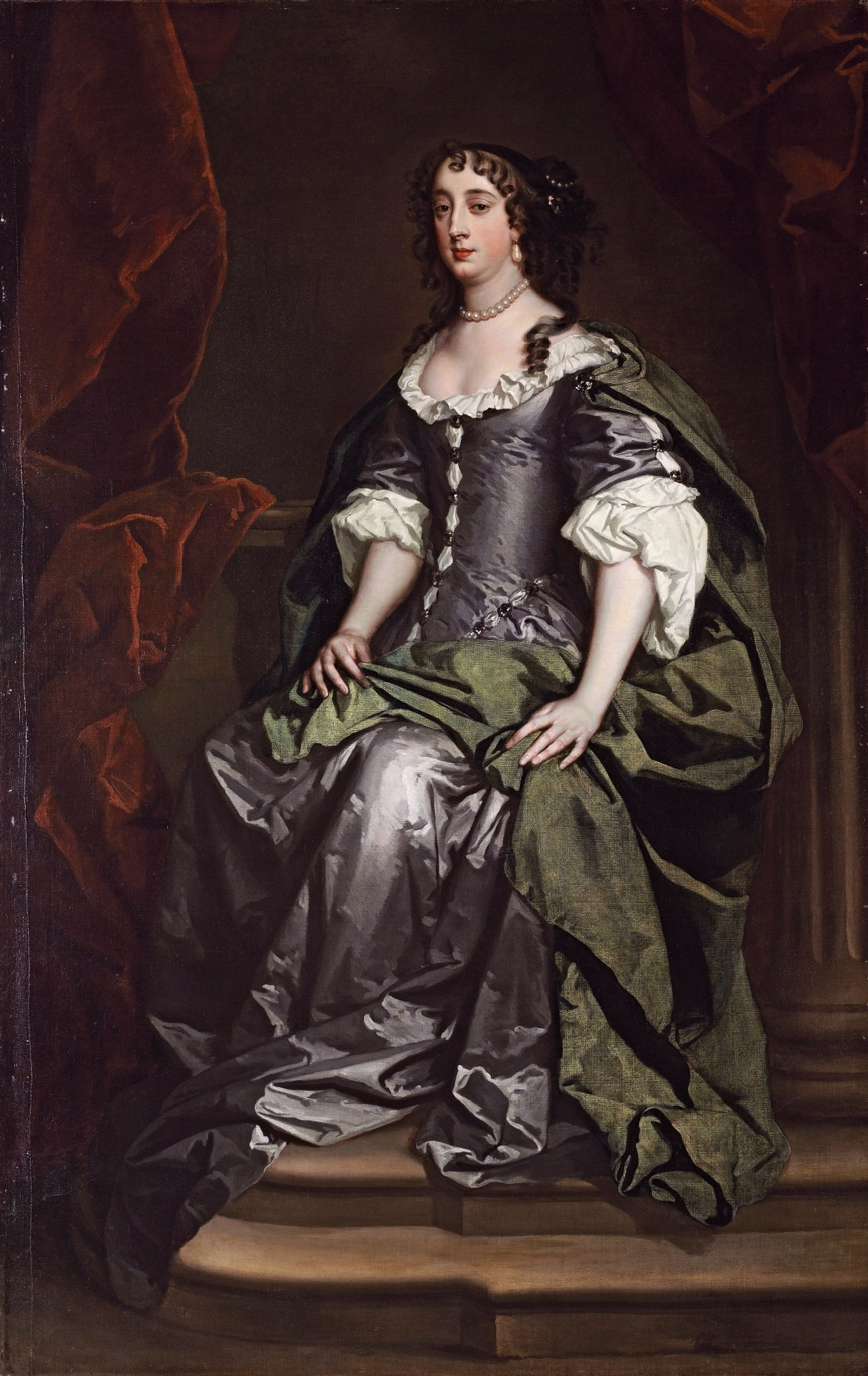 Portrait of Barbara Villiers, Countess of Castlemaine, 1st Duchess of Cleveland (1640-1709)